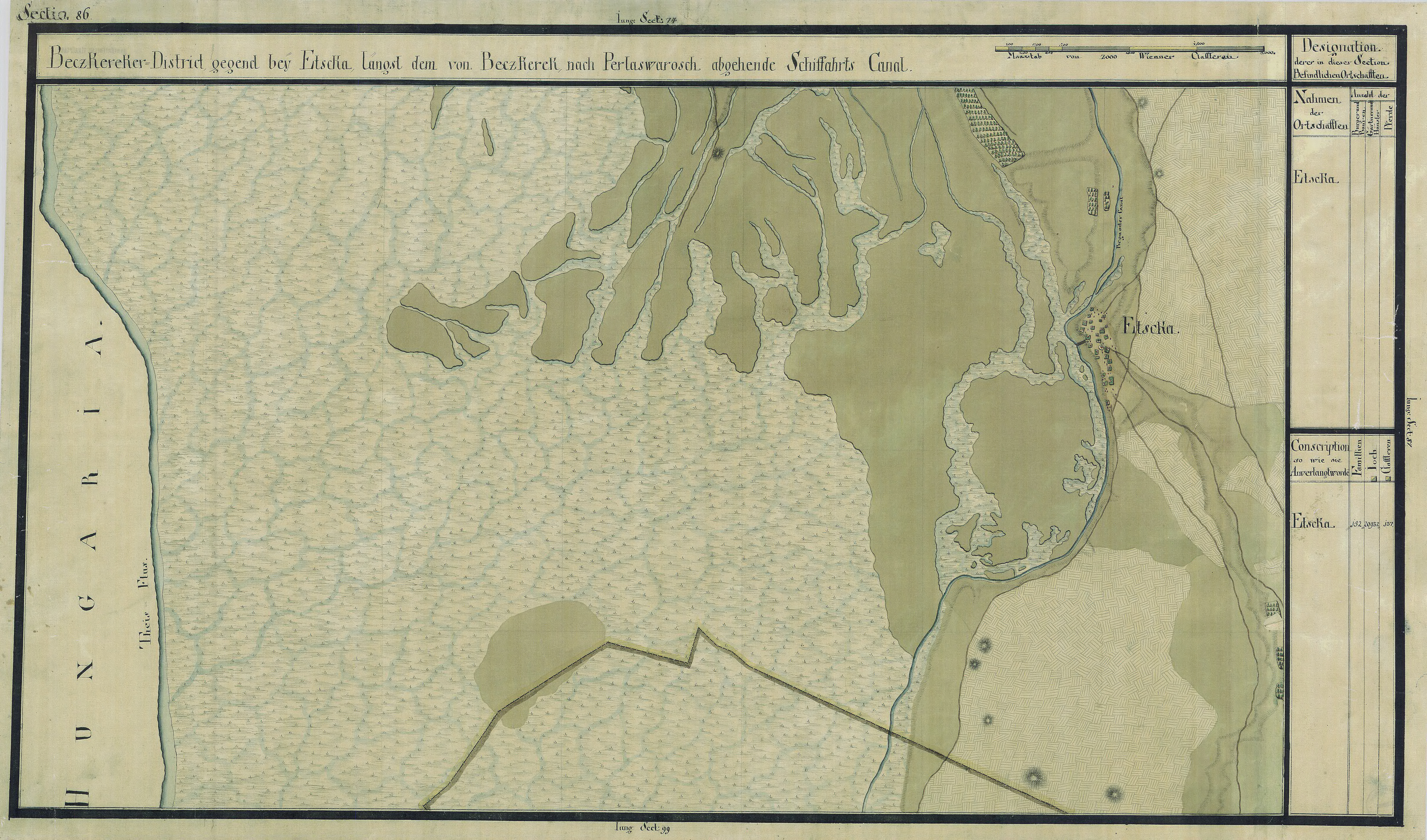 The Banat region in the cadastral maps: Josephinische Landesaufnahme, 1769-72. Josephinische Landaufnahme pg086